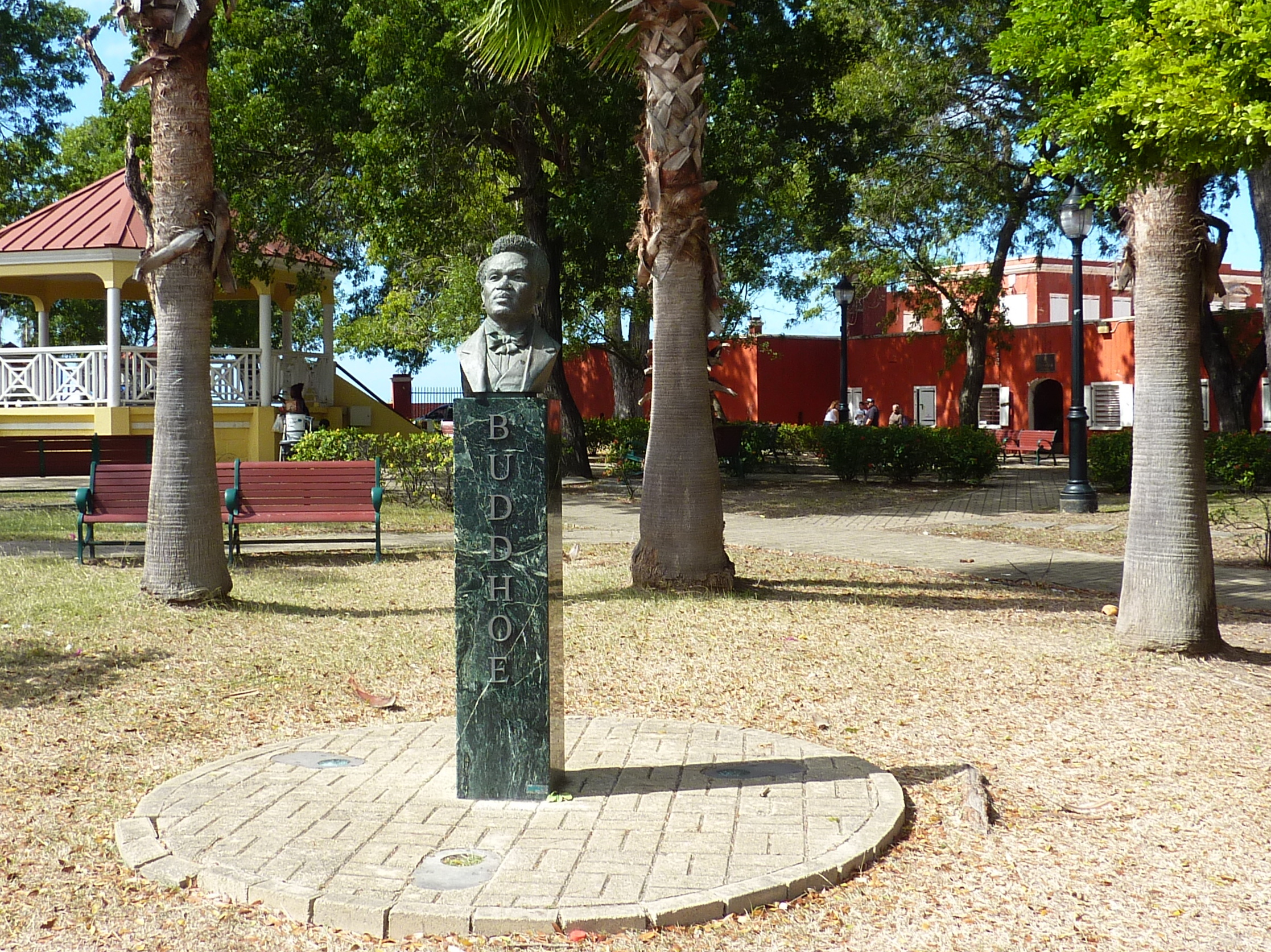 Buddhoe, Frederiksted, St. Croix, USVI, Jan 2013.